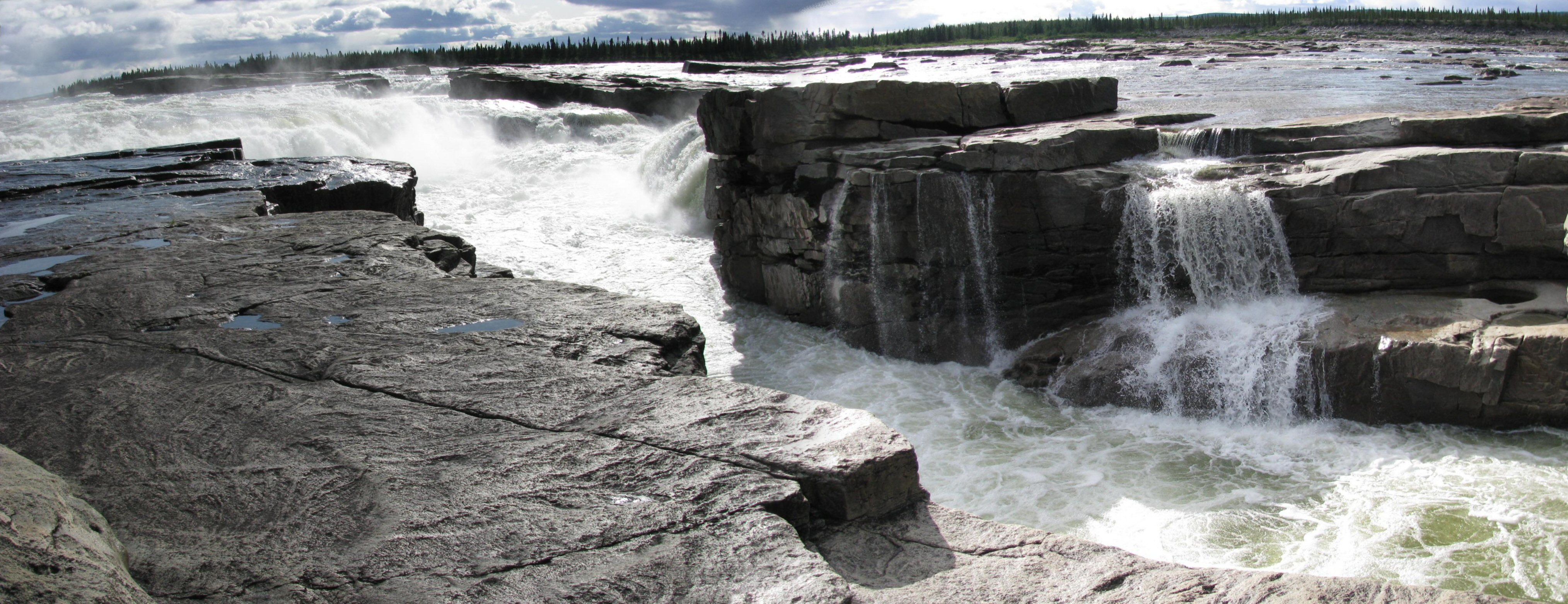 Little Eaton (waterfall & canyon) on Caniapiscau River